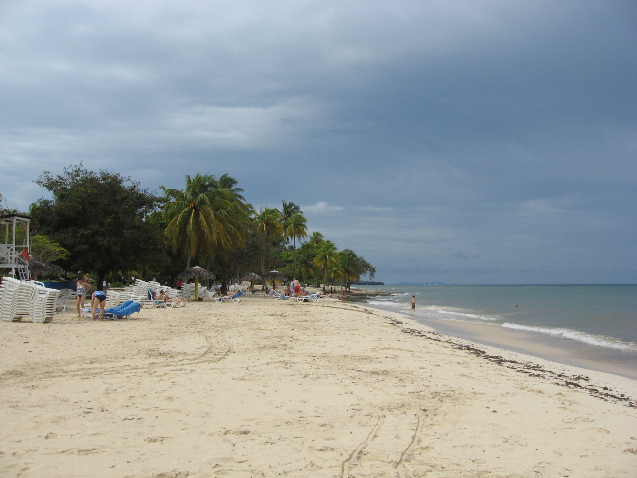 Guardalavaca beach, Cuba